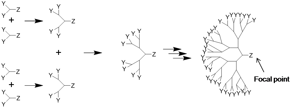 Cartoon of the convergent method of synthesizing dendrimers.